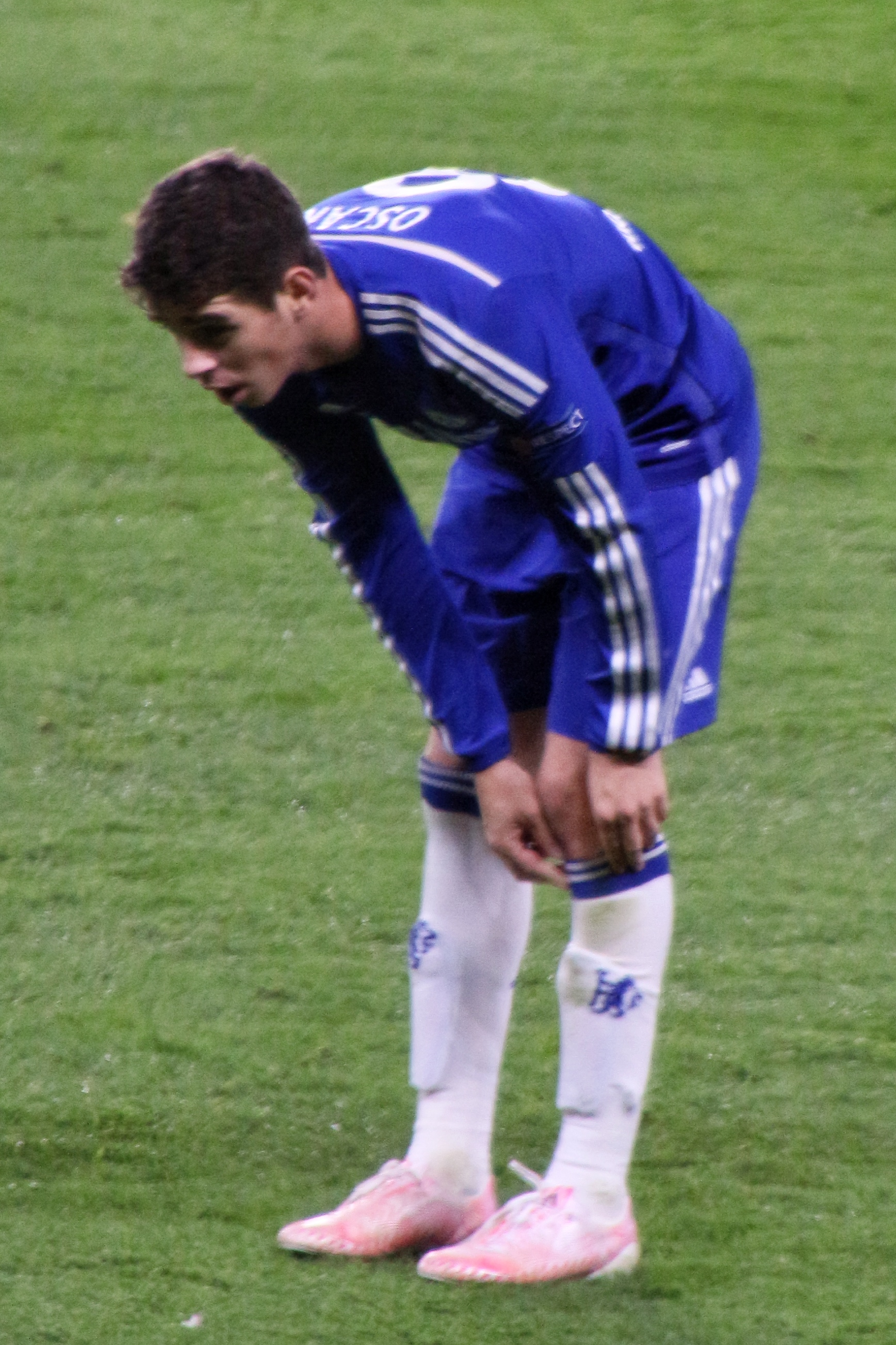 Chelsea 6 Maribor 0 Champions League